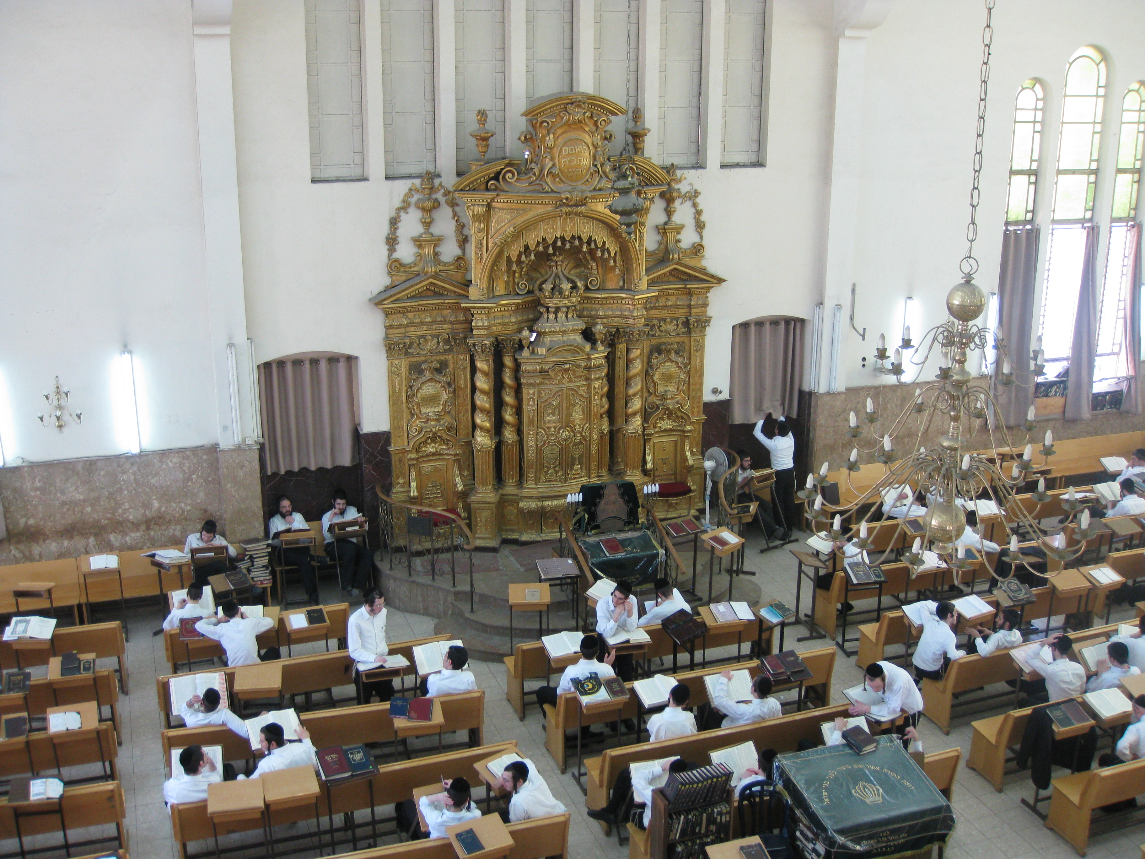 Ponevezh Yeshiva in Bnei Brak